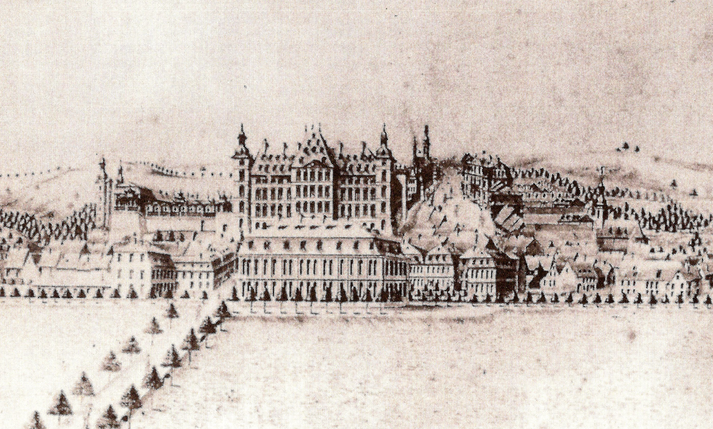 View of Blieskastel (Excerpt)